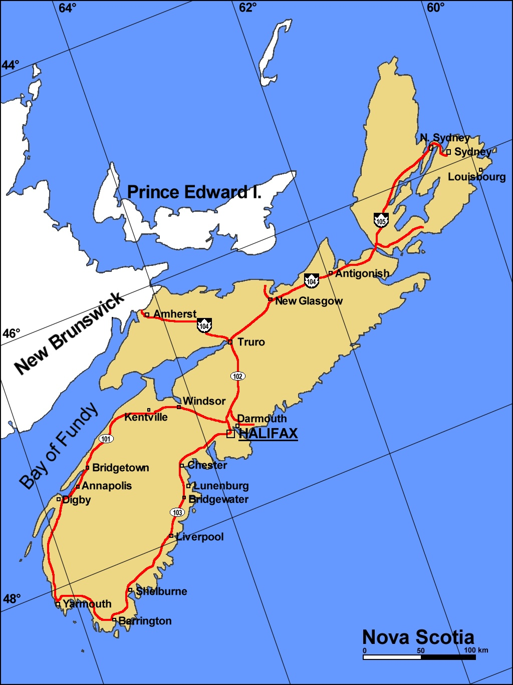 Map of Nova Scotia, Canada